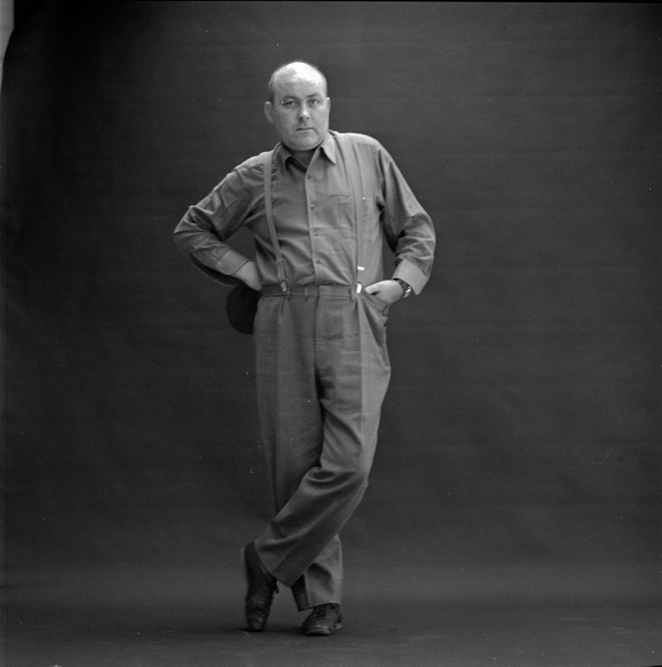 Portrait of Dieter Roth, Düsseldorf by Lothar Wolleh